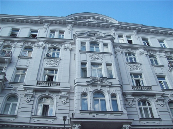 Bracka 18 Street in Warsaw